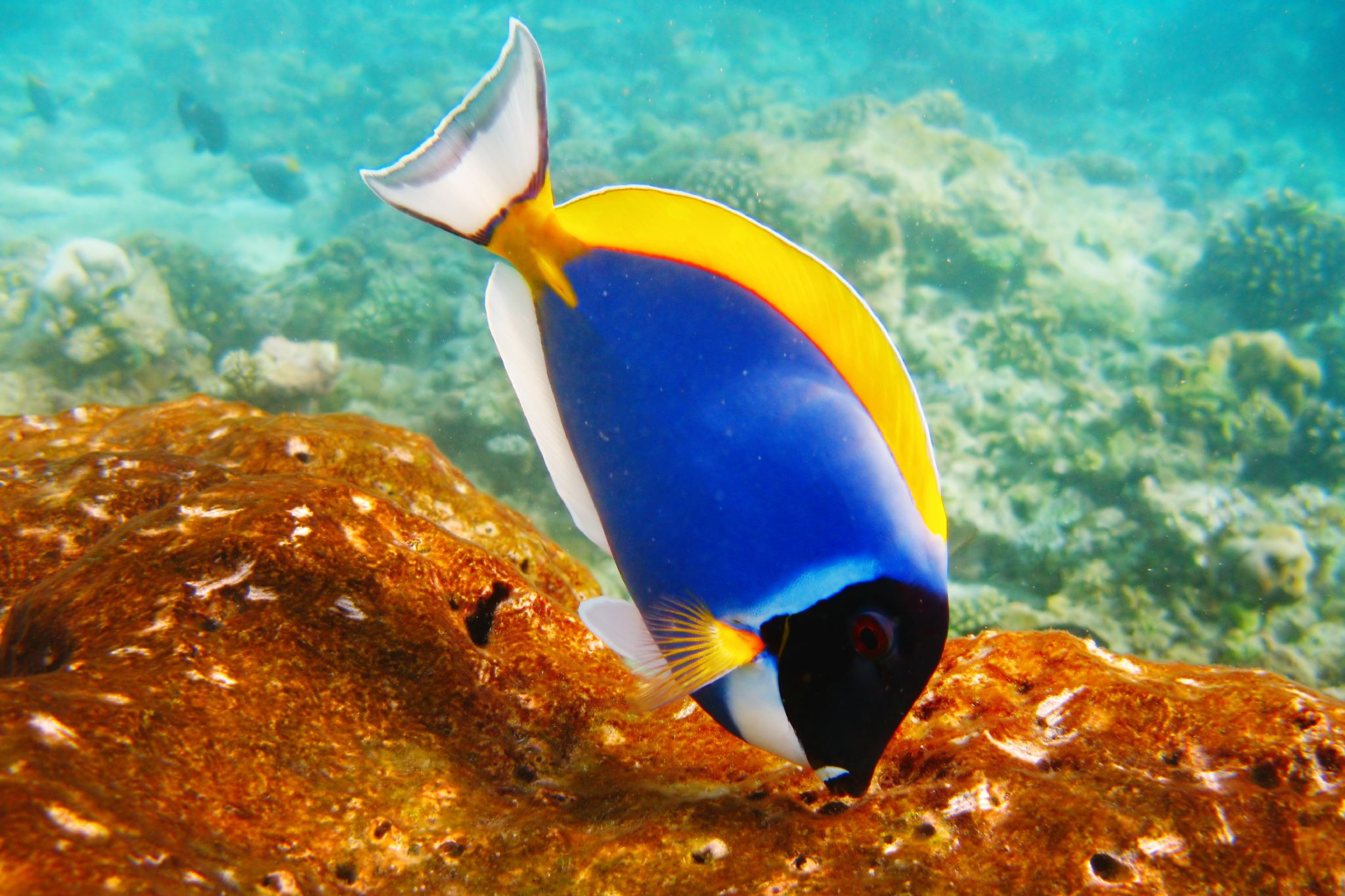 Fish are found in an extraordinary range of habitats, from mountain streams to hot springs and at depths below 7,000 meters. There are some 20,000 species of fish and the Maldivian reefs and seas boast of over 2,000 species. Fish show amazing diversity and are unique in their variety of breeding and development patterns. They possess specialized sensory organs, nostrils, eyes, nerve endings or other senses to gather information. Fish can also monitor temperature, light, colour, dilution, gases, pressure or depth, water currents, vibrations, etc. External fertilization is common where the male fertilizes the eggs laid by the female and left to develop. The fish also has the ability to live with an array of other species forming symbiotic or other relationships. Location: Bandos House Reef TO PURCHASE MY PHOTOS